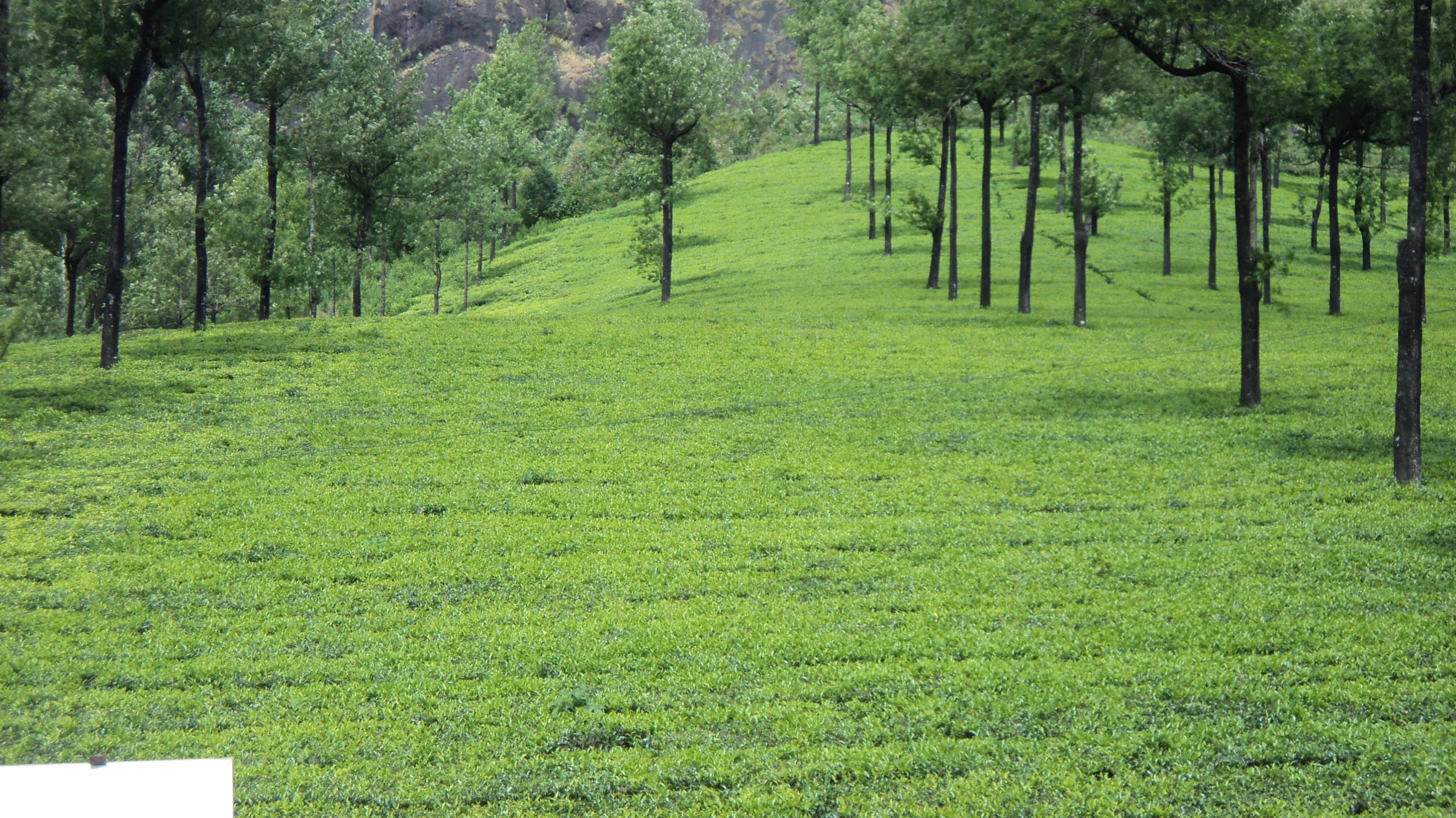 Tea Garden in Munnar